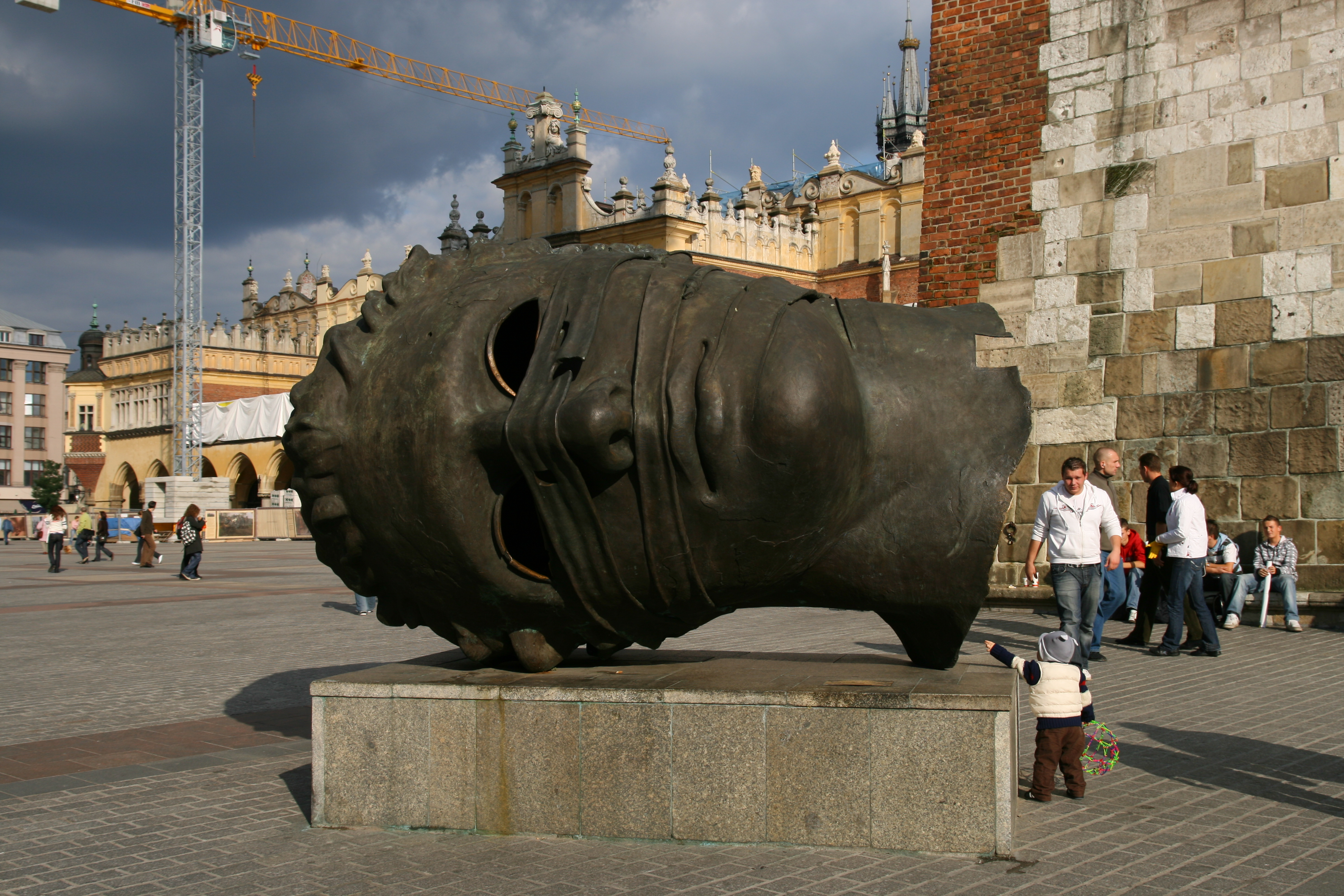 Igor Mitoraj's sculpture "Eros Bendato" ("Eros Tied") at marketplace in Kraków (Poland).